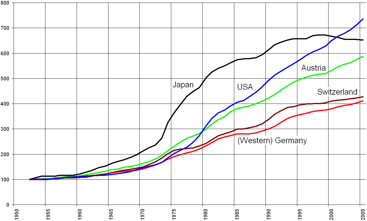 Consumer Price Indices of selected countries